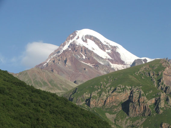 Kazbegi. Mount. Mkinvarcveri (Kazbek) 5033 m., Stefancminda district